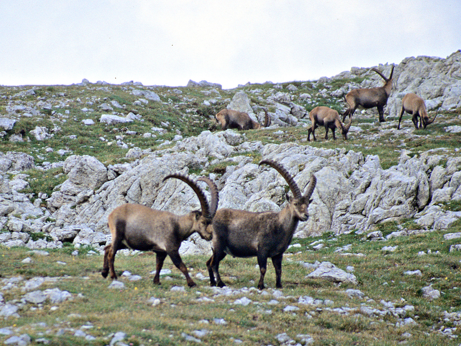 Ibex on mountain Reiting in Styria, Austria